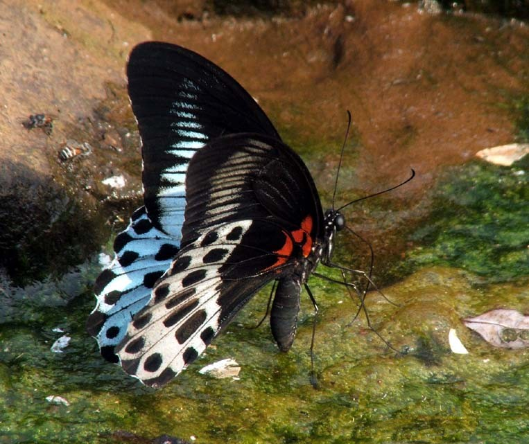 Blue Mormon Papilio polymnestor (Cramer, 1775)